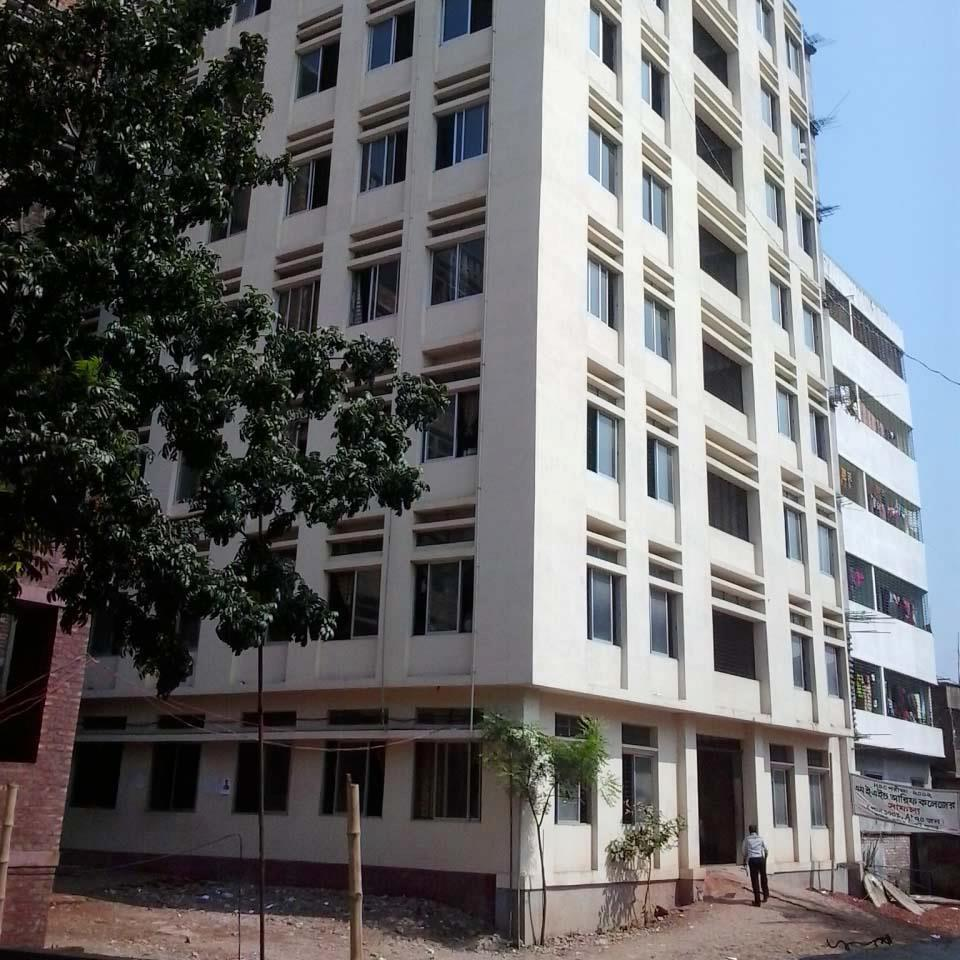 ARIF COLLEGE ACADEMIC BUILDING.